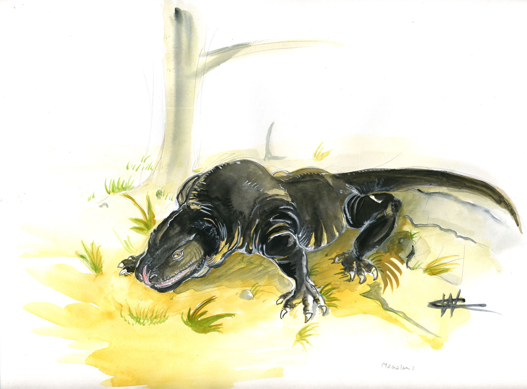 megalania prisca, own work, watercolour